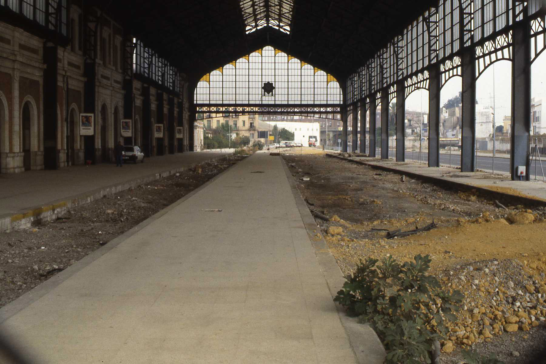 Old San Bernardo's Station, in Seville. It is now replaced with a modern station close by.